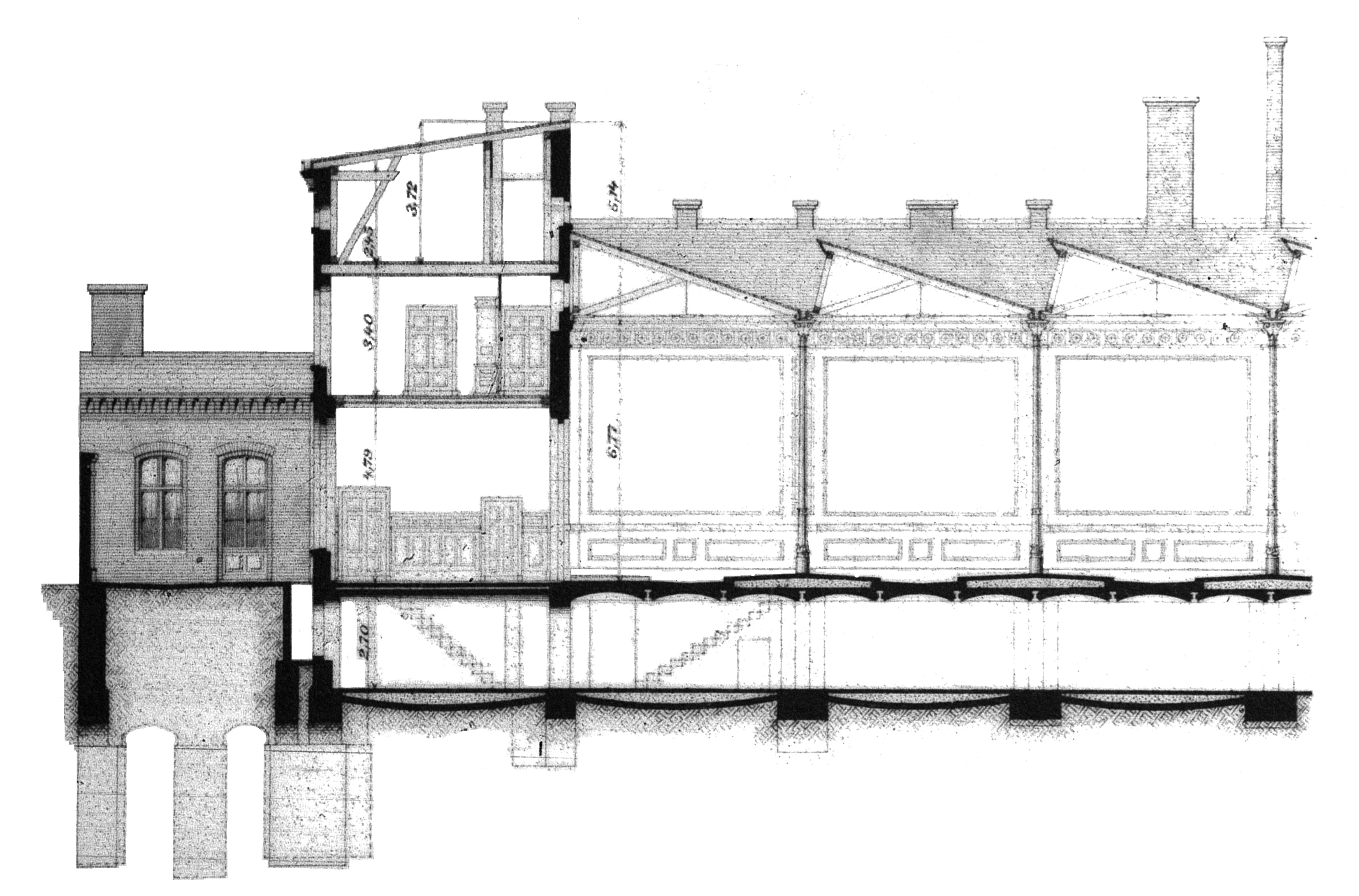 Berlin - market hall IV at Dorotheenstraße, longitudinal section hall